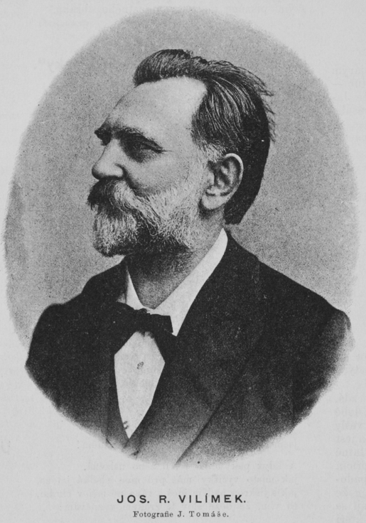 Photograph of Josef Richard Vilímek Senior (1835 - 1911), Czech publisher of "Humoristické listy" magazine.